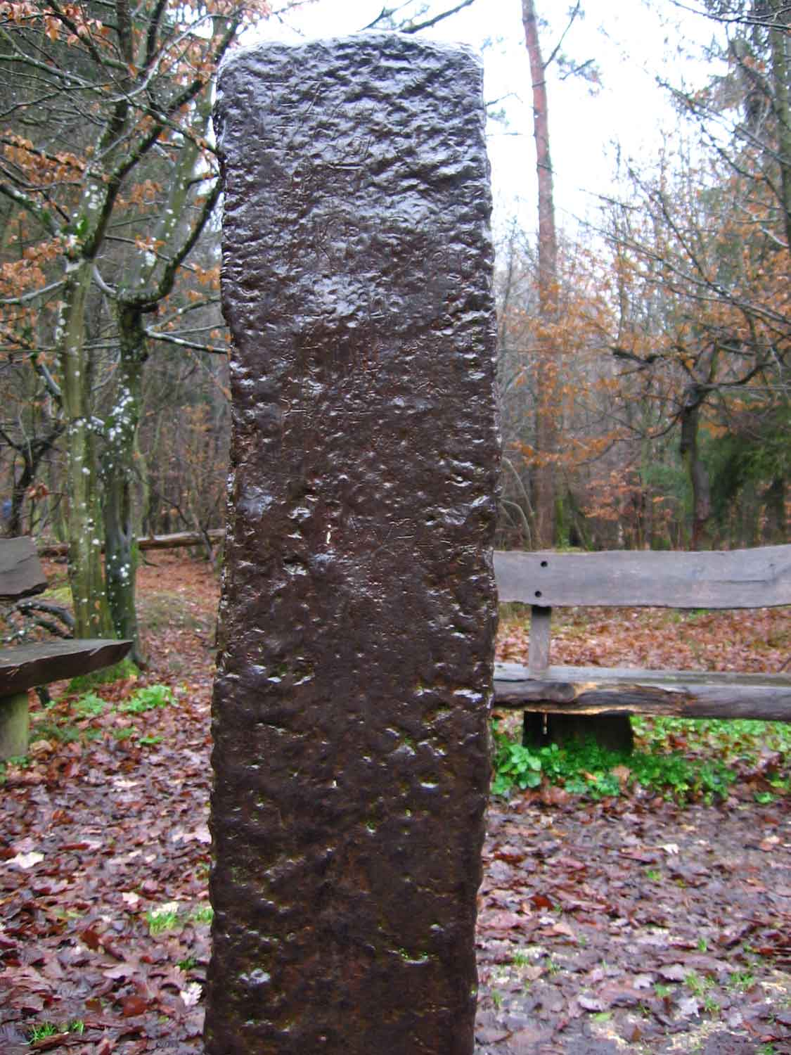 Der Eiserne Mann (Iron Mann) located in Kottenforst-Ville nature reserve Germany. Taken by Chris Walters on vacation at 50.70757N by 006.96105E on .